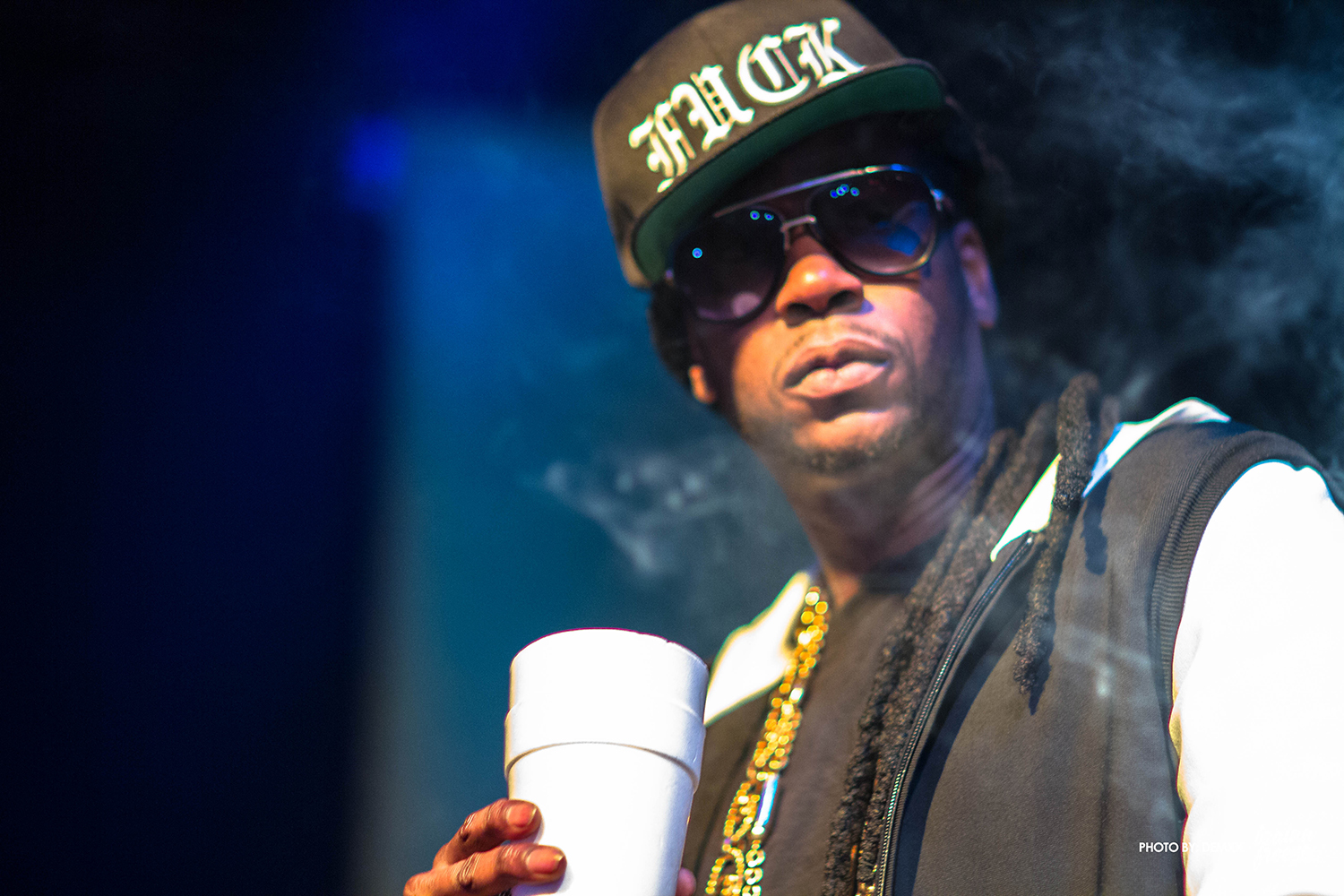 2 Chainz in Orange County